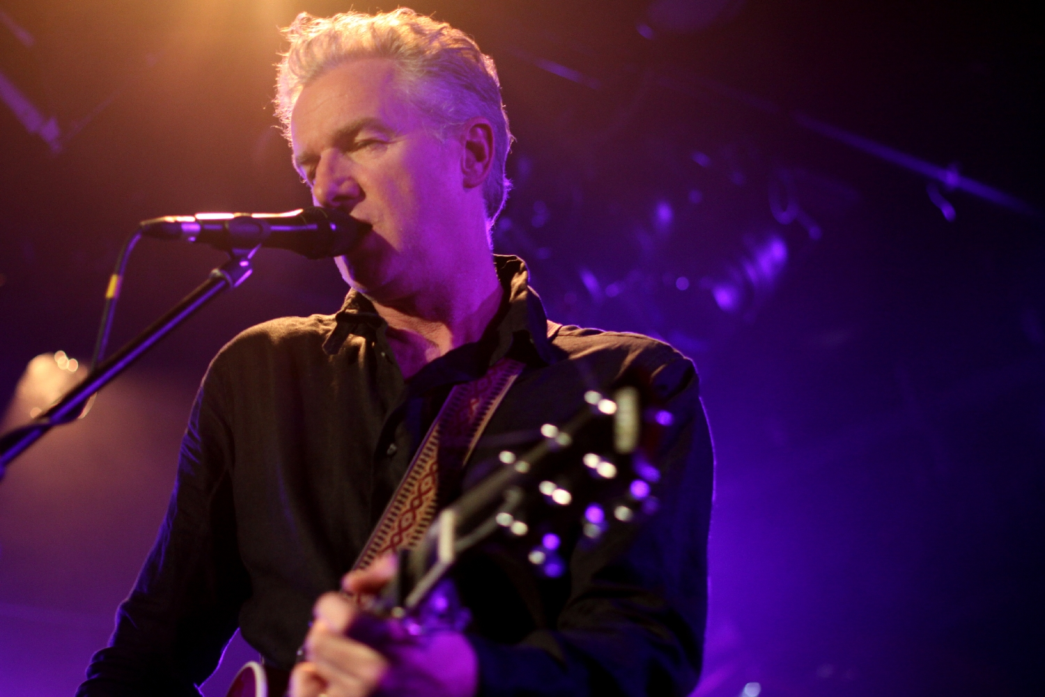 Mick Harvey performs live, 2012